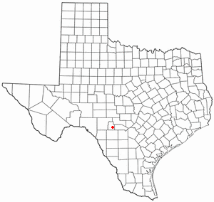 Map of Texas showing location of Leakey